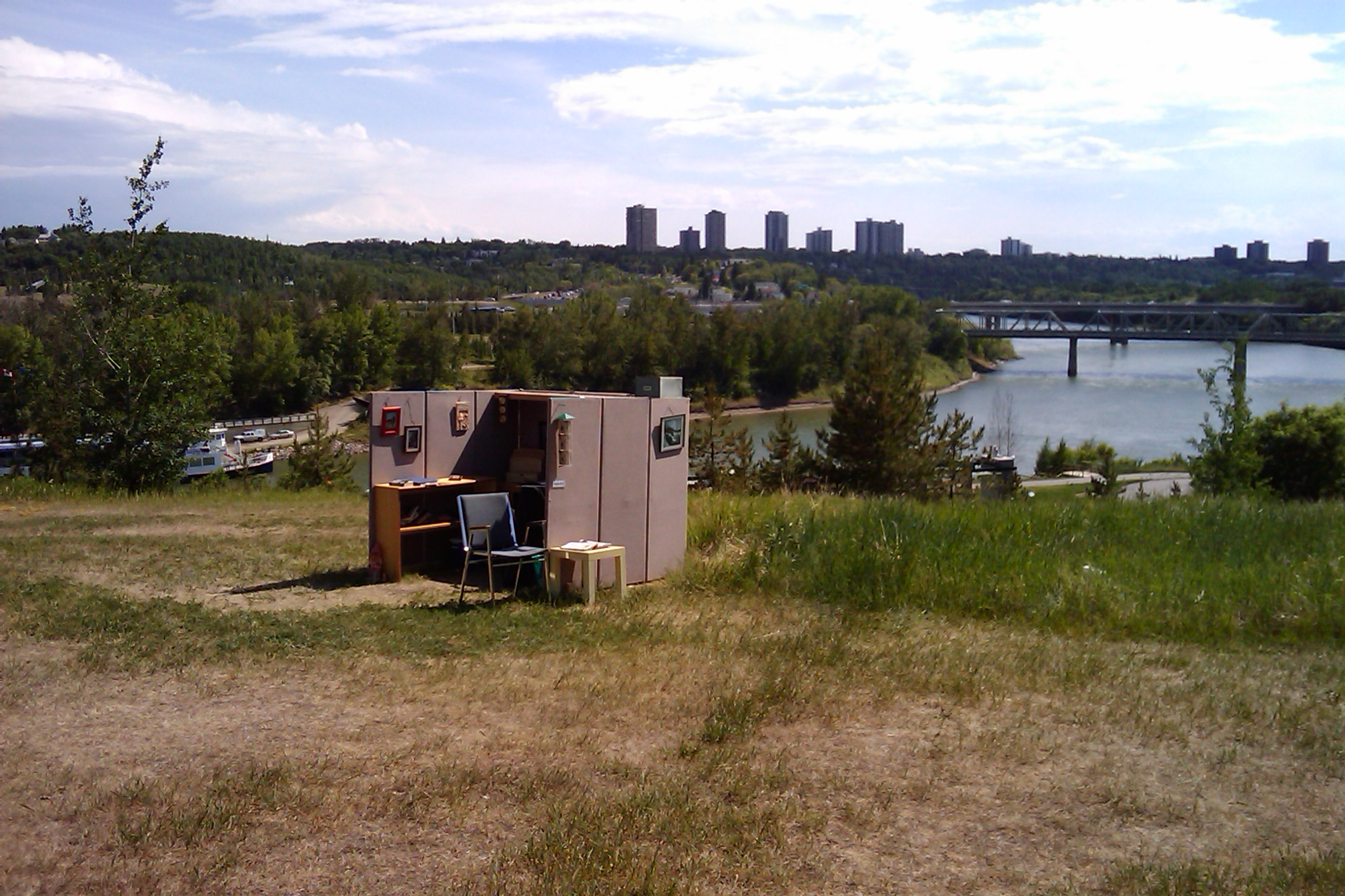 from the Louise McKinney Park area of Edmonton, Alberta, Canada, looking south at a cubicle and over the North Saskatchewan River